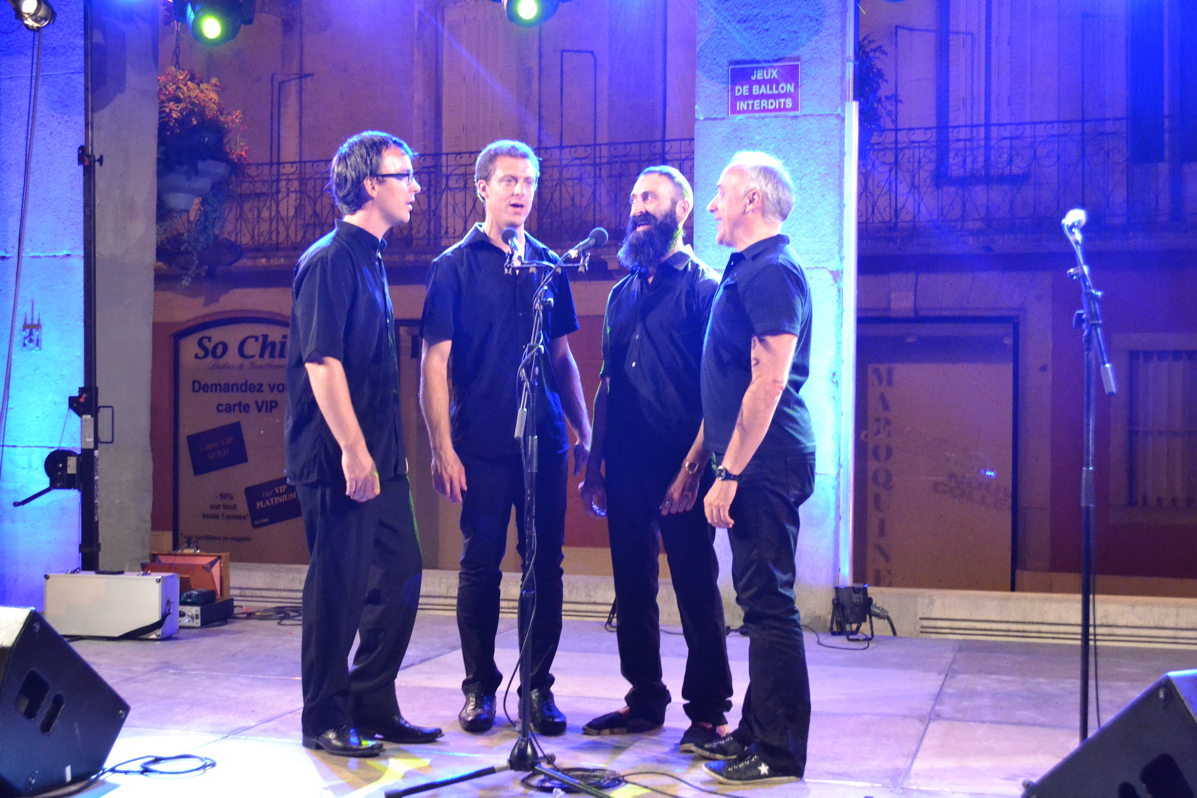 Vox Bigerri during Euroregional Forum "Heritage and creation" in Castelnaudary in 2016.